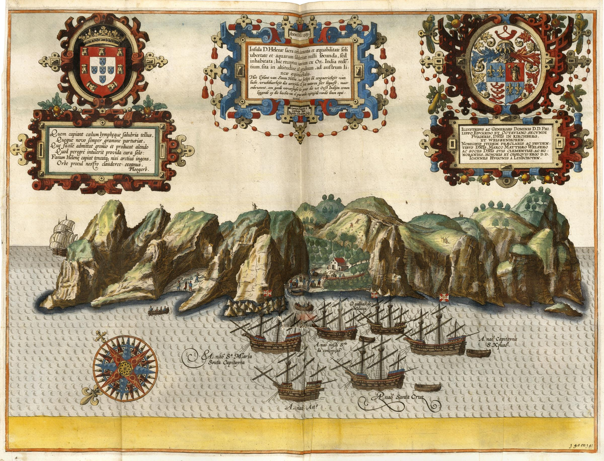 From